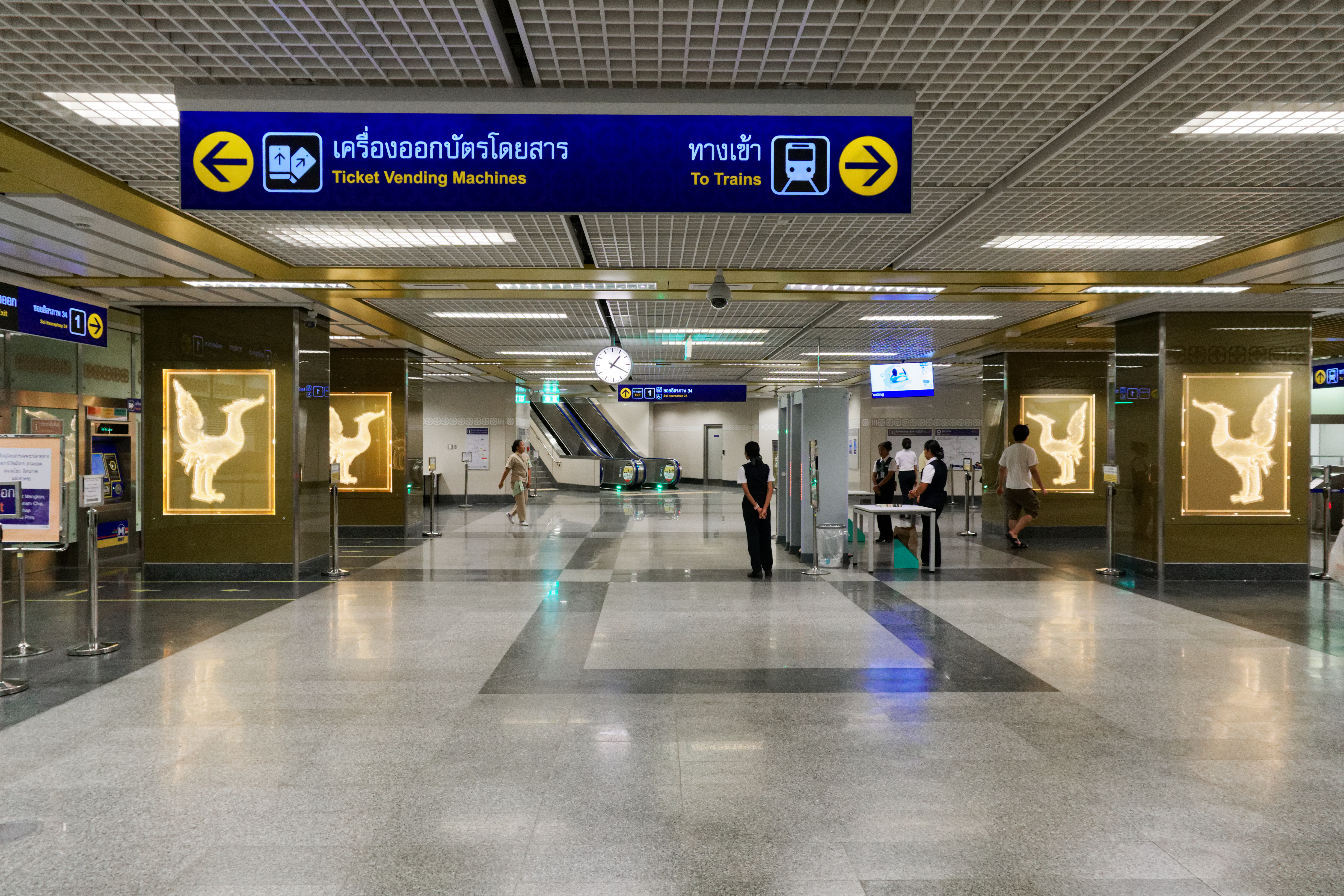 MRT Israpharp inside the station area